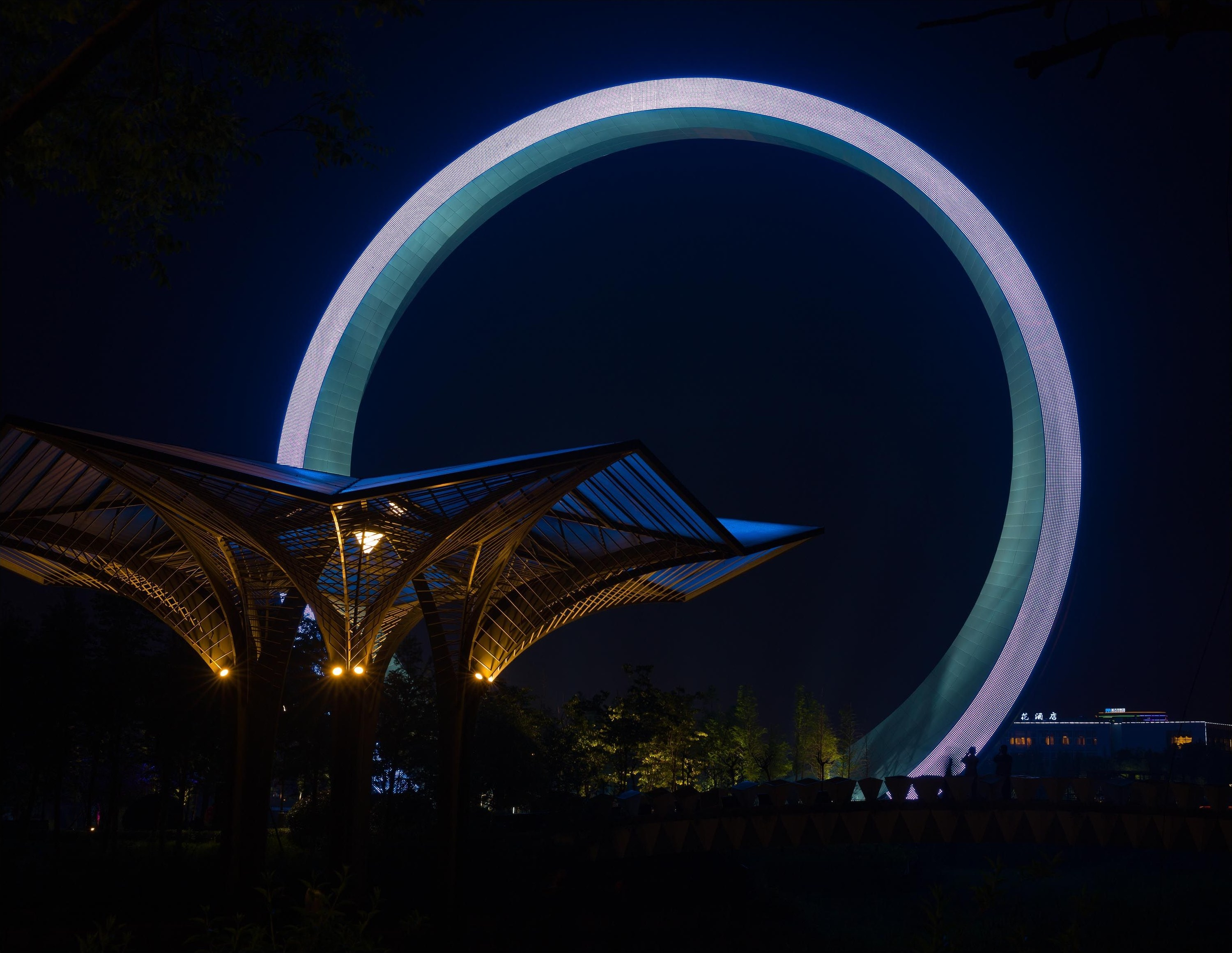 Zijing Ferris Wheel